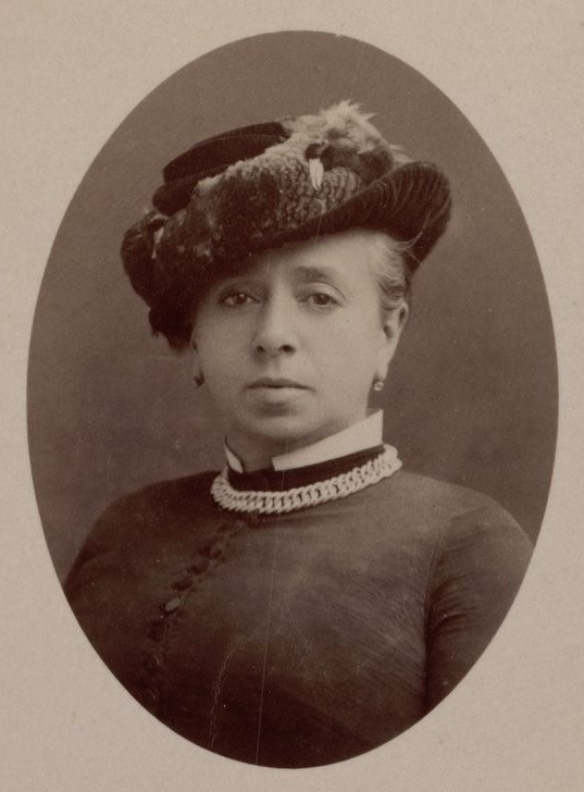 Marguerite Macé-Montrouge (Victoire-Élisa Macé), 1819-1889, French singer and actress, protograpg by the Nadar workshop